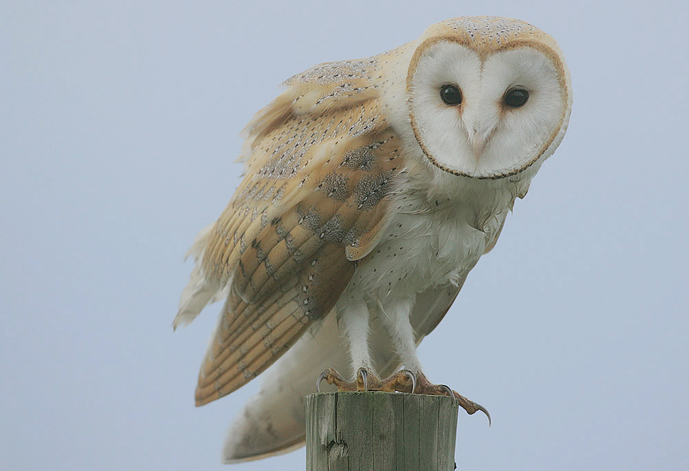 An image taken on one of those few serendipitous occasions when a crap day suddenly turns good. I was up Glen Quaich, the weather was poor with persistent showers and the birds were in short supply. I decided to return home but on leaving Amulree heading towards Crieff I passed a fenced-off area of moorland which, being protected from grazing was regenerating and to my surprise noted a hunting Barn Owl. Barn Owls are on the very edge of their range in Scotland and struggle to hunt in wet and windy conditions. Being much more sedentary than Short-eared Owls the Breadalbane Glens are perhaps just a bit too extreme for them, especially in winter. This image was taken standing up through the sun roof of my car. The bird was attracted to a nearby fencepost by my creating a high-pitched squeaking noise by sucking on the back of my hand (I had seen Simon King do this on TV but never really believed it would work ....well it does!). I watched this bird for about 40 minutes during which time it caught only one vole getting its belly feathers soaked in the process. Poor feather waterproofing is the price these birds pay for sporting noise-free feathers for silent flight. Image taken about 5km east of the Sma'Glen, Breadalbane, Scotland.